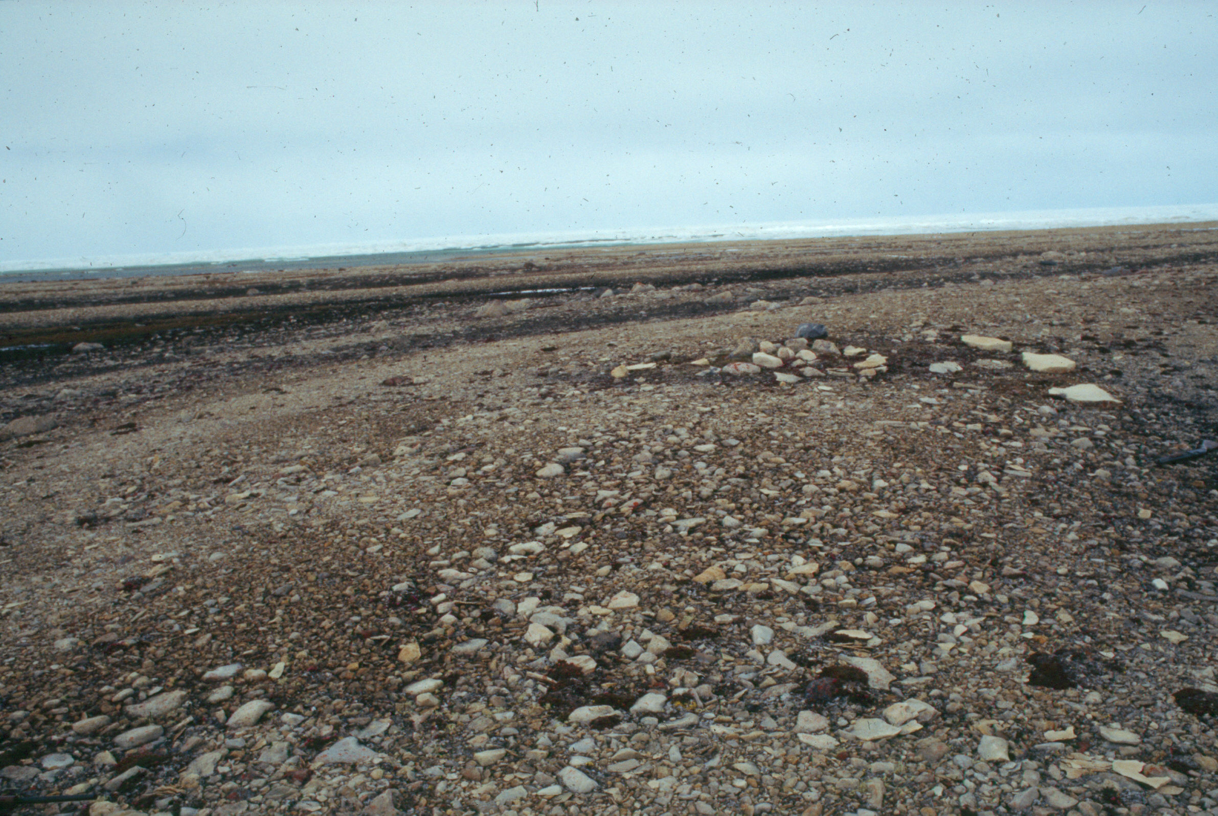 Franklin Summer Camp site 3.3 miles south of Cape Felix, King William Island